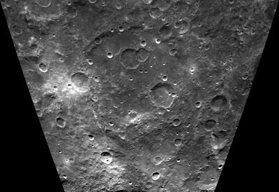 Planck lunar crater - Clementine image